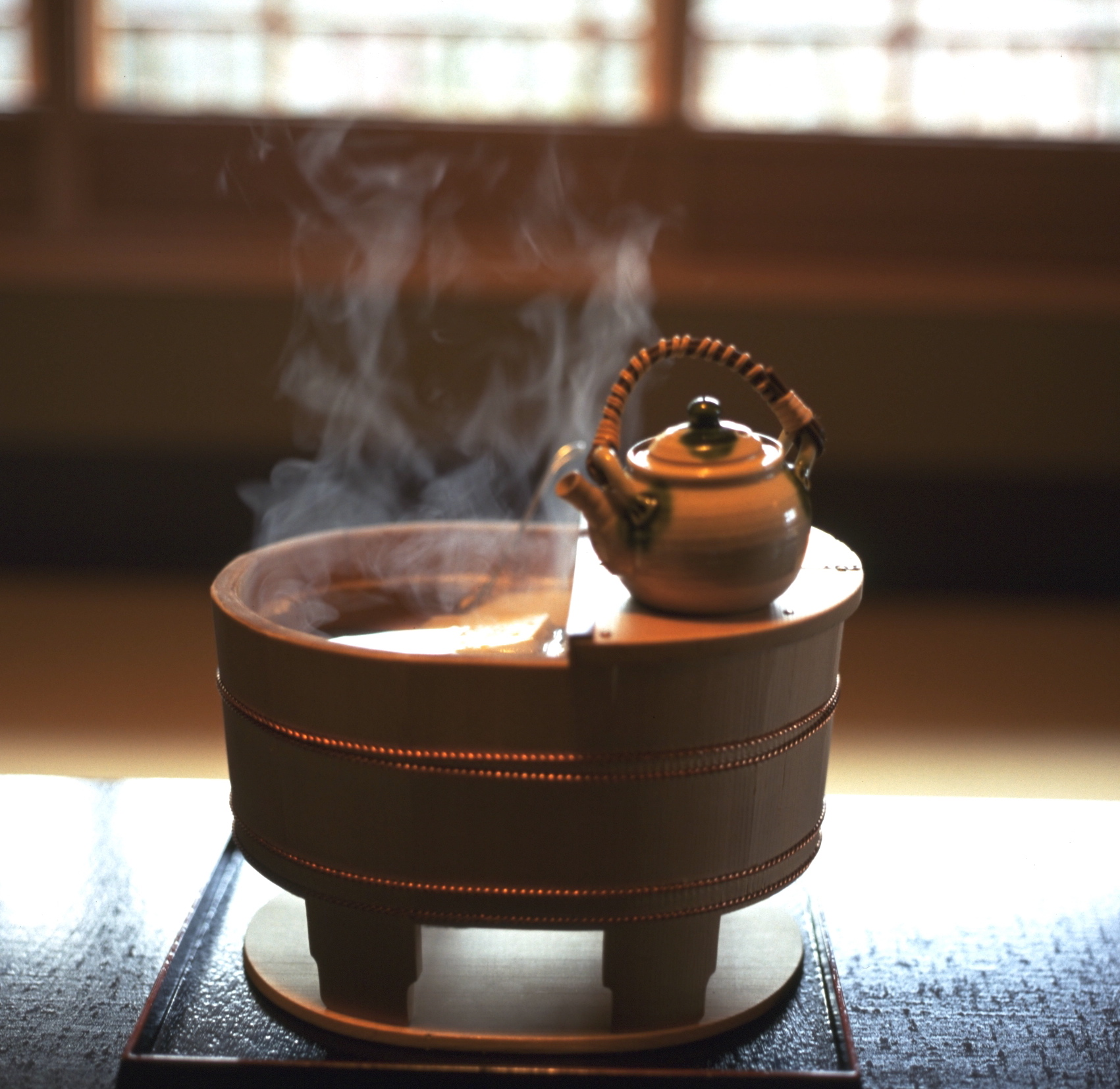 Yudofu in the morning